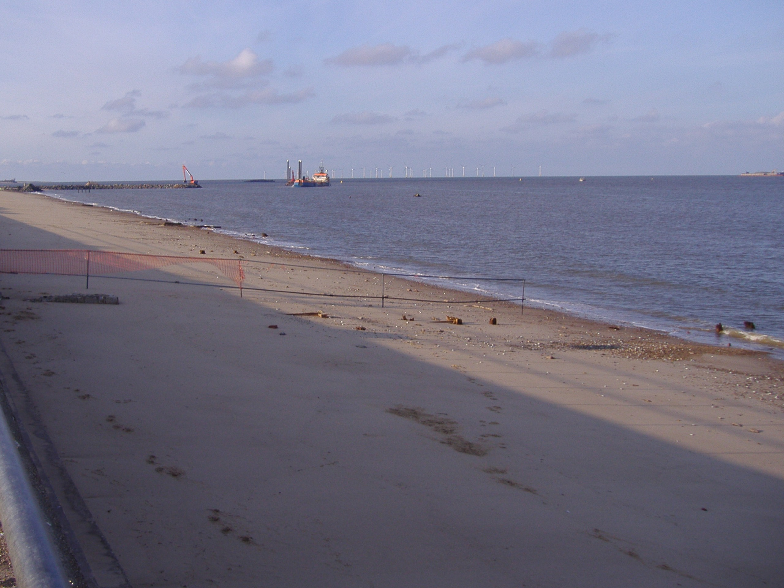 A Digital Photograph of the construction of the Outer Harbour at Great Yarmouth 30th August 2007